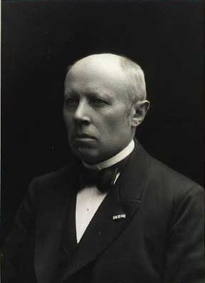 Lars Dinesen (1838-1915), Danish politician, MP